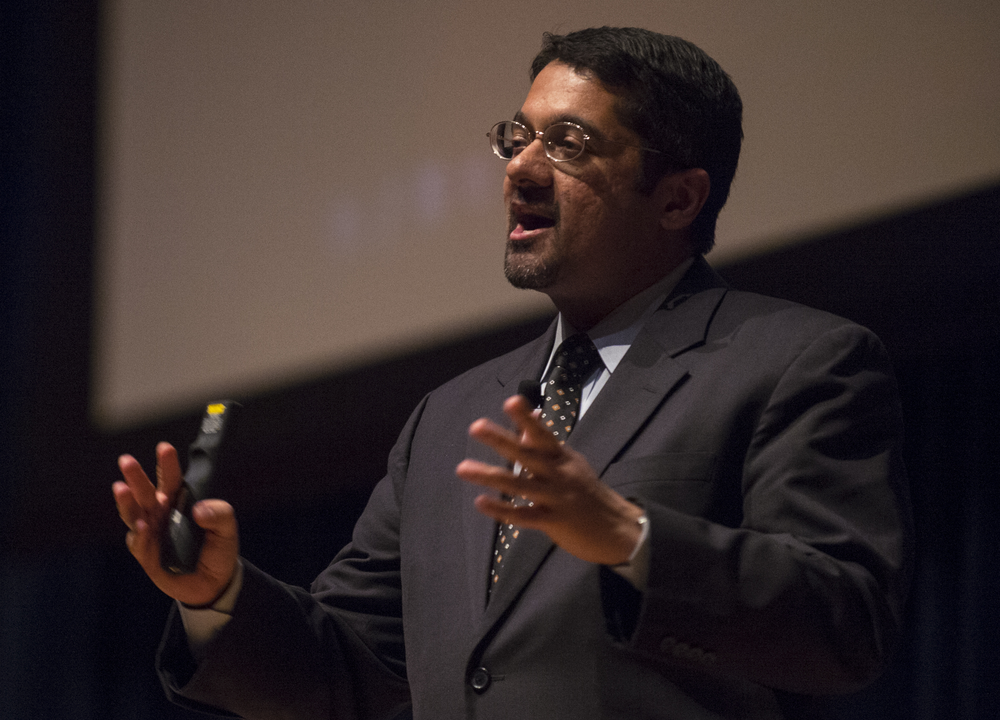 NEW LONDON, Conn. -- Shankar Vedantam, science correspondent for NPR, addresses the U.S. Coast Guard Academy Corps of Cadets April 4, 2016 as the keynote speaker for the Academy's Eclipse Week. U.S. Coast Guard photo by Petty Officer 2nd Class Cory J. Mendenhall.